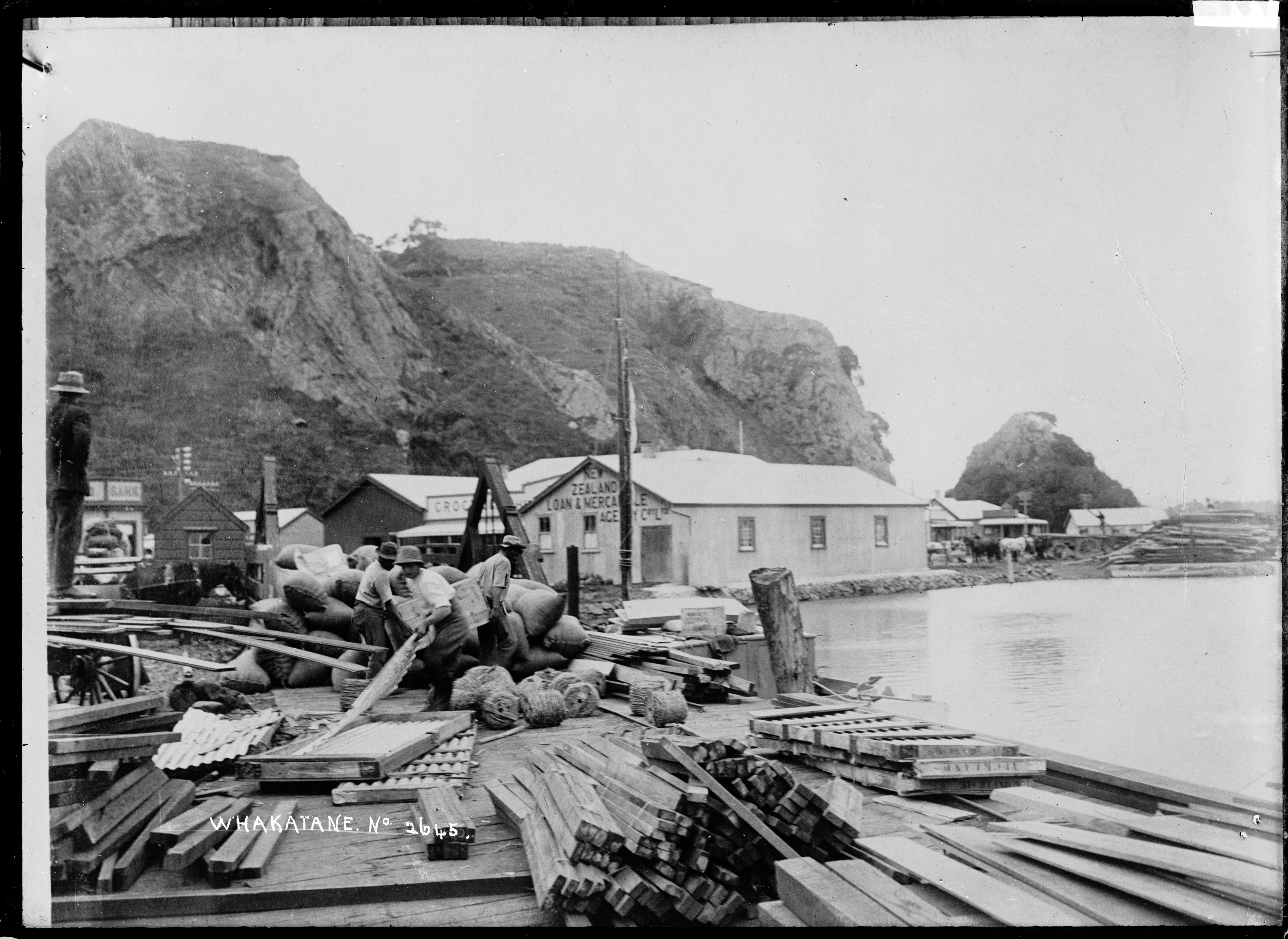 Wharf at Whakatane. There are stacks of timber in the foreground, several men are lifting unidentified items, with a pile of filled sacks behind them. In the centre background is the building of the New Zealand Loan & Mercantile Agency, with cliffs rising steeply behind. Photographed by William Archer Price circa 1910s. Inscriptions: Inscribed - Photographer's title on negative -bottom left: Whakatane. No. 2645. Quantity: 1 b&w original negative(s). Physical Description: Dry plate glass negative Wharf at Whakatane. Price, William Archer, 1866-1948 :Collection of post card negatives. Ref: 1/2-001780-G. Alexander Turnbull Library, Wellington, New Zealand.